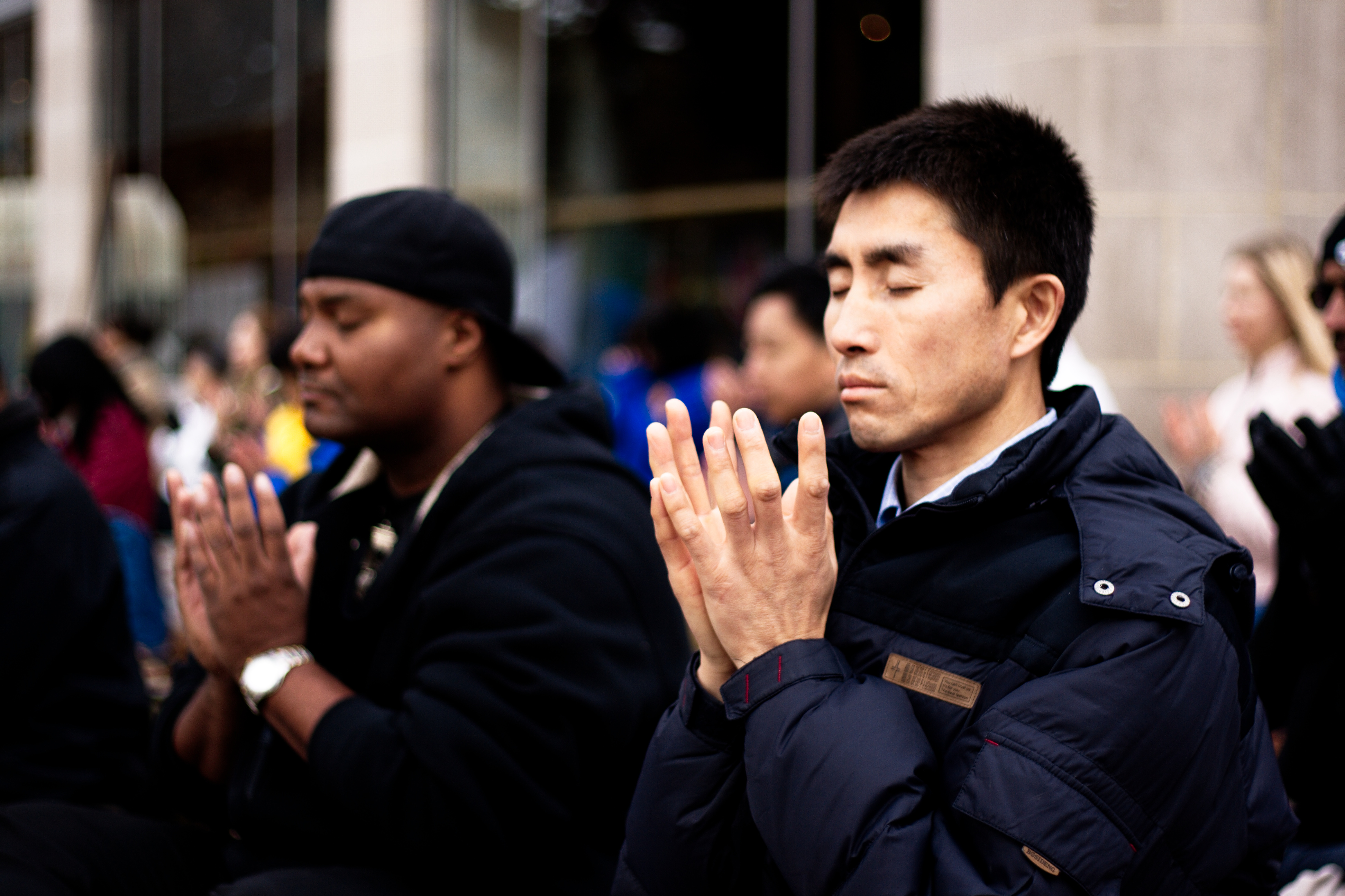 Practitioners of Falun Gong silently meditate while protesting the Chinese Communist Party's persecution of Falun Gong at a demonstration in Washington, DC.